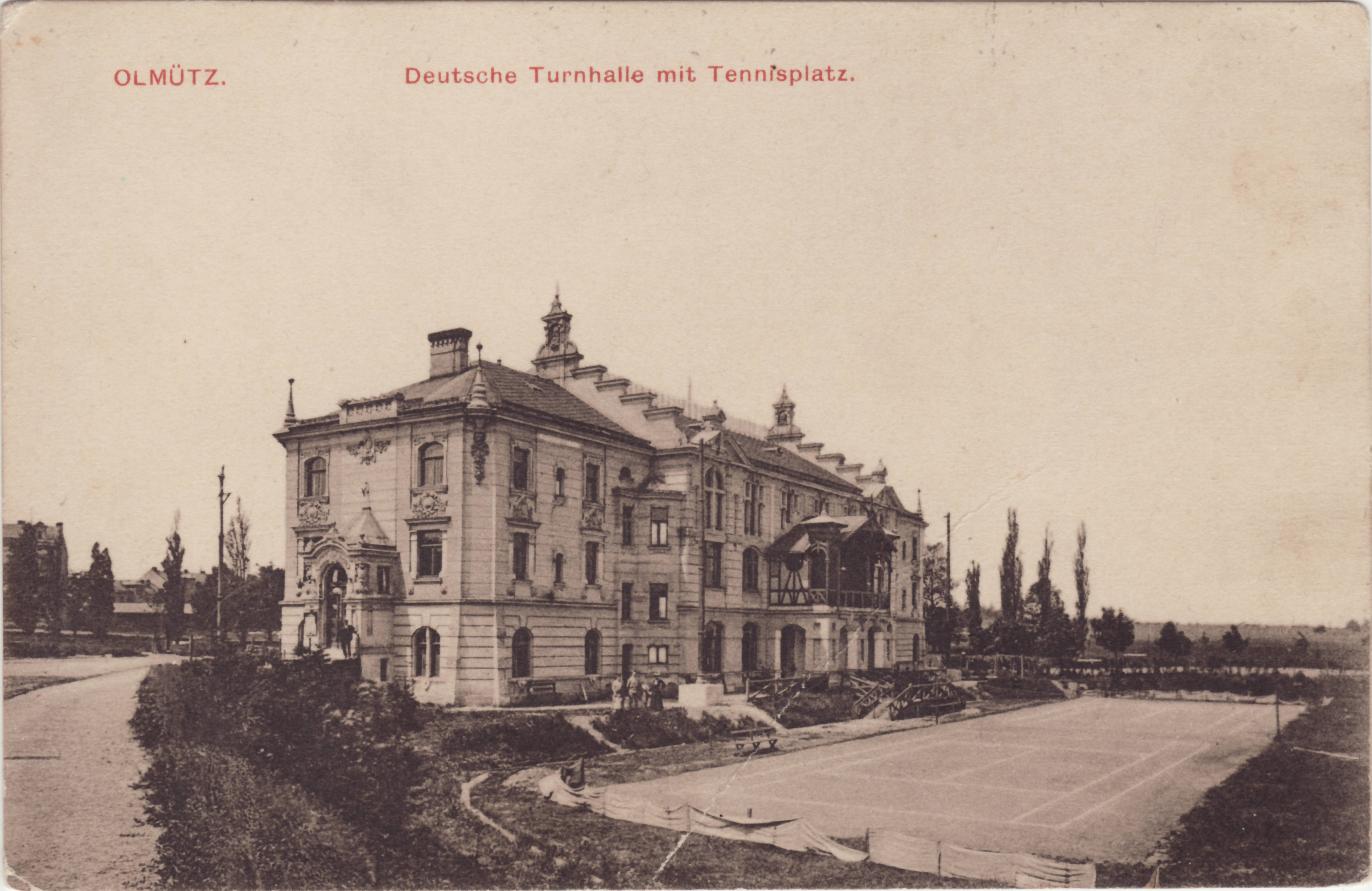 Turnhalle, a sports venue of the former German society in Olomouc Deutscher Turverein, nowadays belonging to Palacký University.